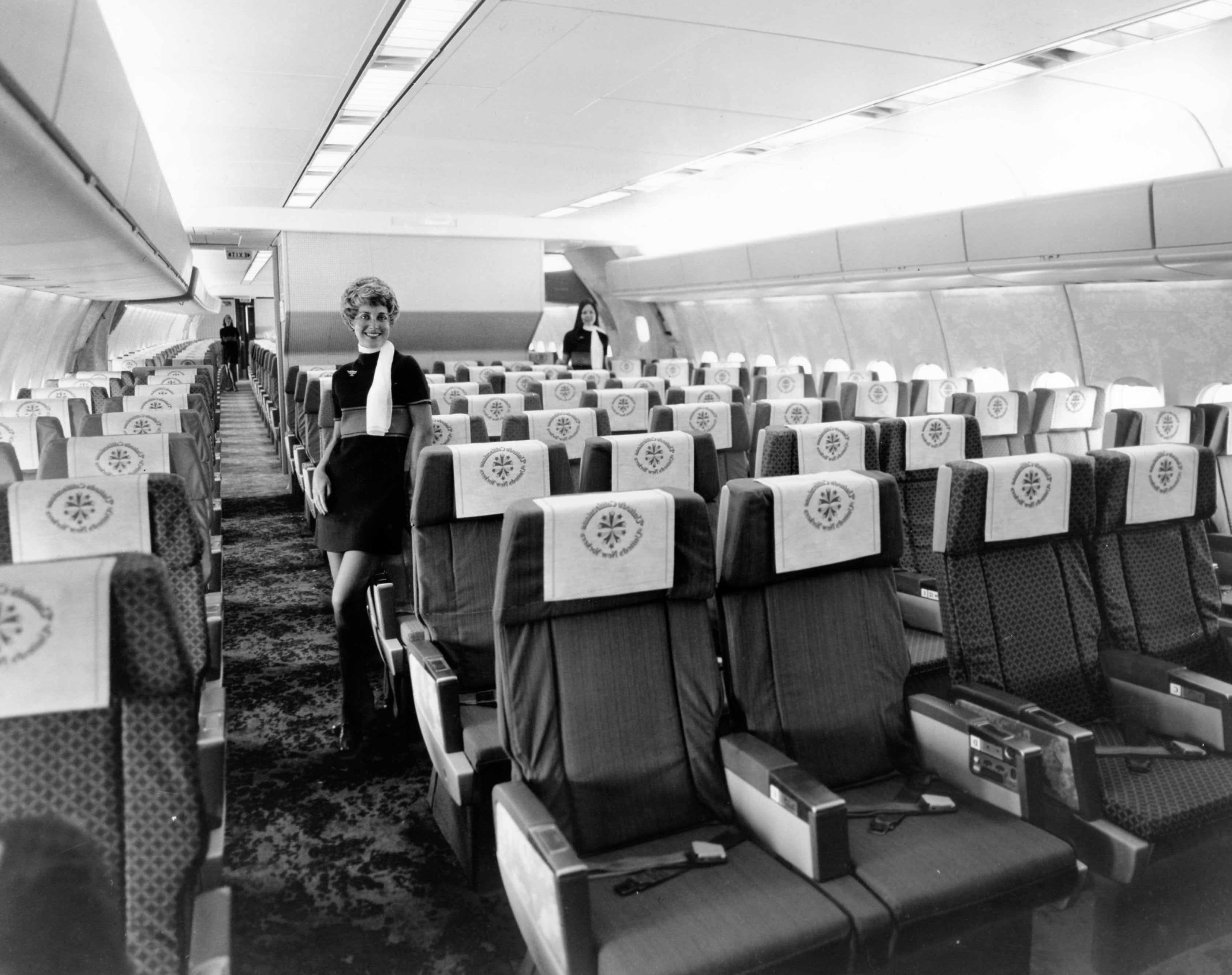 United States, McDonnell Douglas DC-10 interior arrangement.